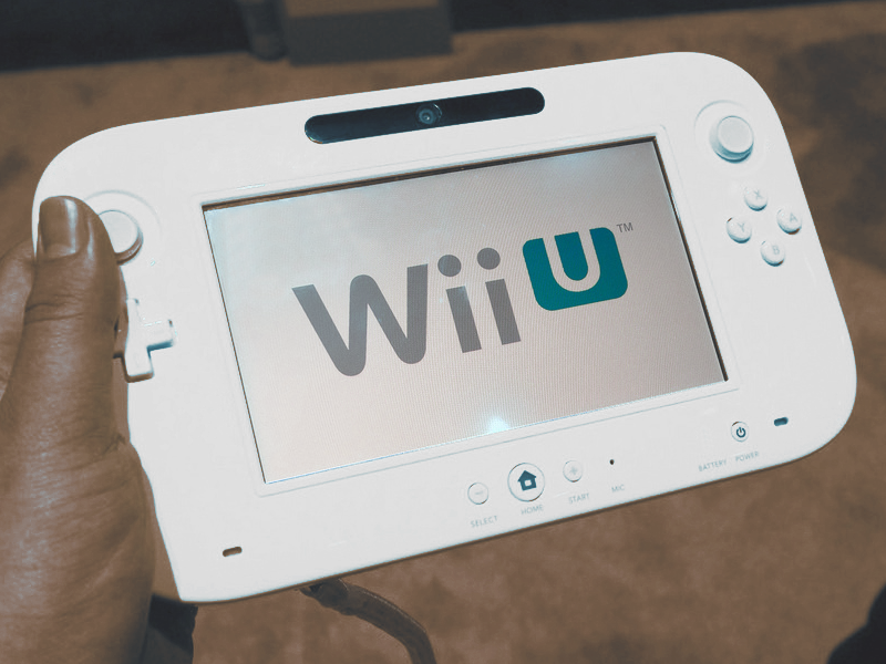 Photograph of the Wii U controller taken at Nintendo's E3 2011 booth.